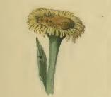 Stainton’s Natural History of the Tineina (1855–1873): Ptocheuusa inopella a flower of Pulicaria dysenterica with some florets disturbd by larva